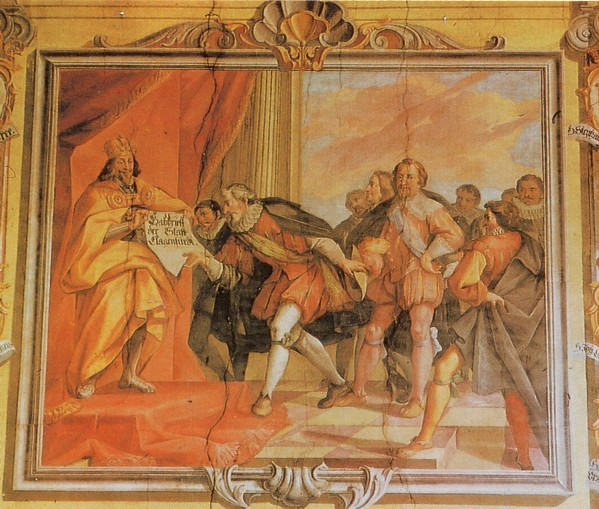 Fresco in Großer Wappensaal, Landhaus Klagenfurt, southern wall. Shown is Emperor Maximilian I. giving the city of Klagenfurt to the Stände (nobles of the country) on 24. April 1518